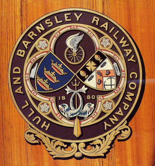 This image was derived from a scanned image of a reproduction H&B armorial device produced as a sales item by the North Eastern Railway Coach Group (NERCG). Its quality has been deliberately reduced.